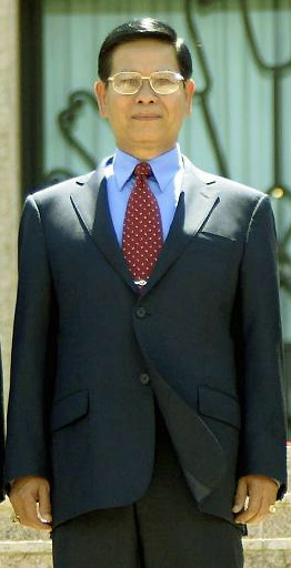 Former Prime Minister Khin Nyunt Thursday 21 October 2004. Photo taken by Edward Win.